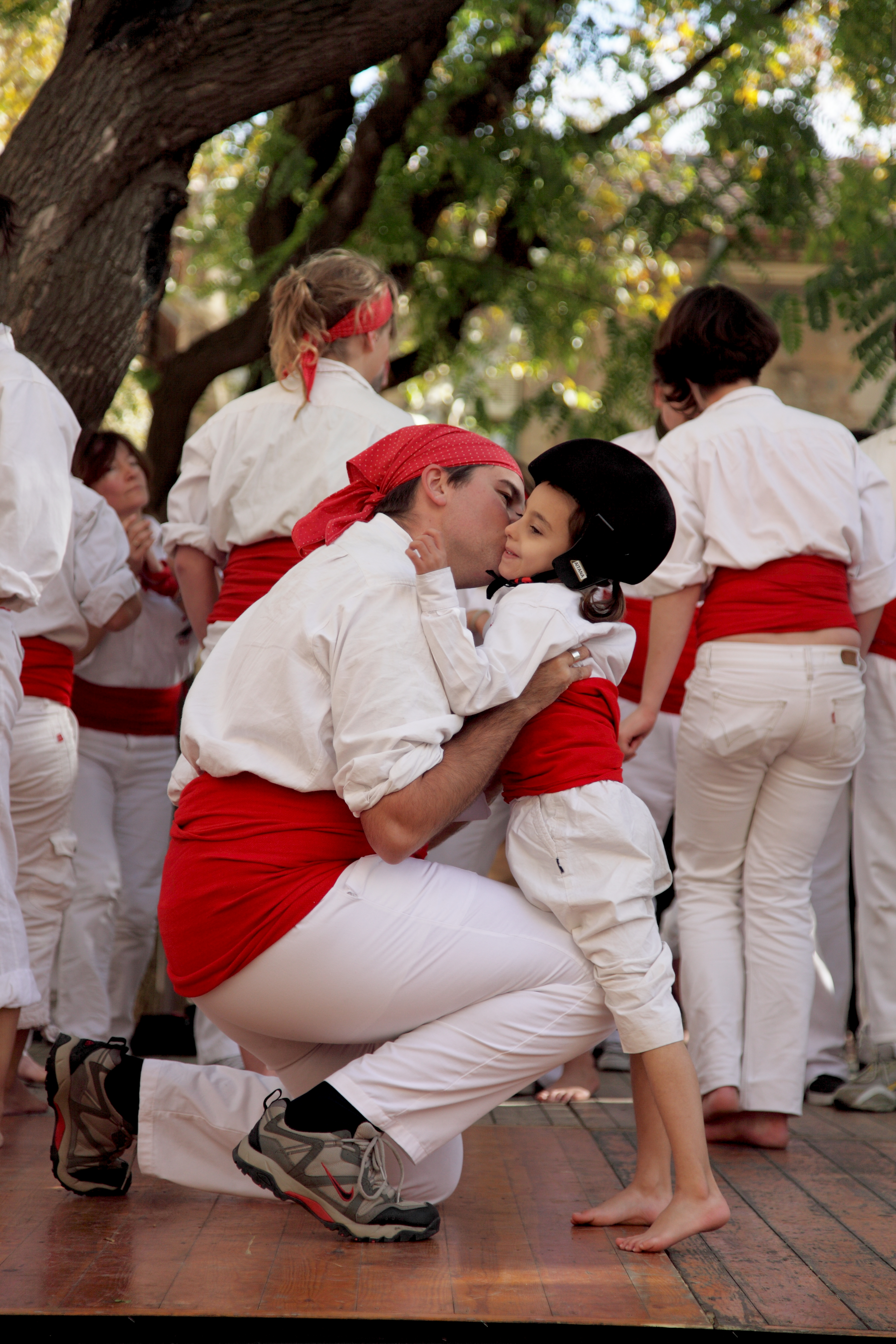 The Falcons are a demonstration sport-gymnastics appeared in Catalonia in the early twentieth century, taking as reference the Sokol (Falcon in Czech), which has become traditional in Penedes. In their constructions are acrobatic performances, reminiscent of the castles, but with more variety of shapes and with fewer participants, and with more variety of styles between the different groups, although there is a part of the repertoire of figures common to all. Although many buildings are of a static, dynamic appearance and choreography there is more important than the castles and the aesthetic effect sought with the composition of different shapes simultaneously (